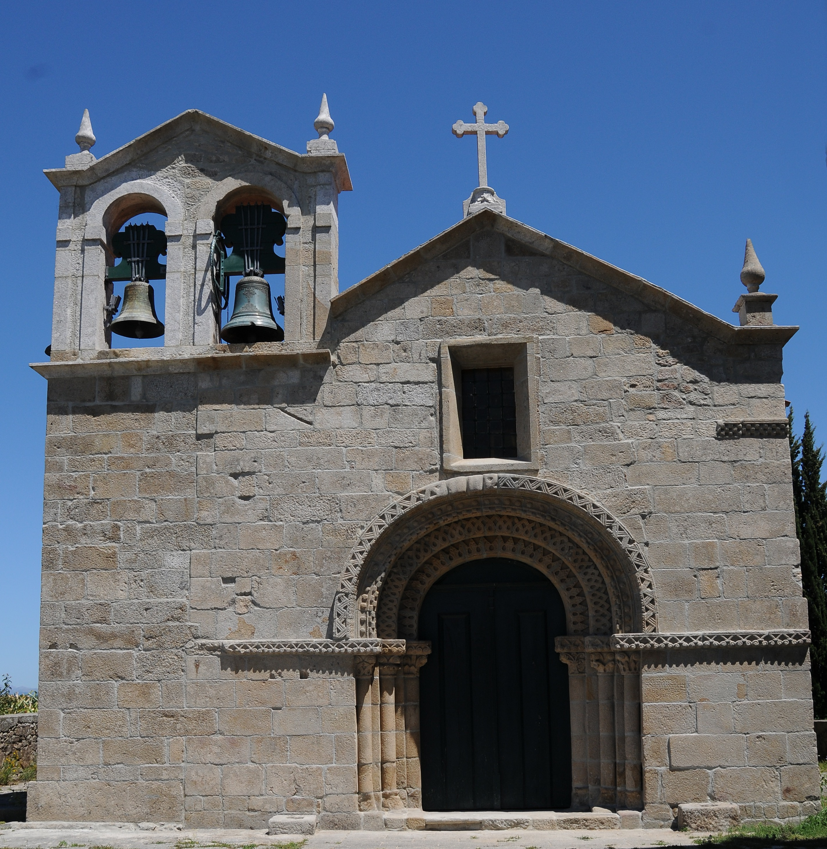 Manhente Church, Barcelos, Portugal